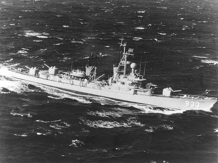 The U.S. Navy destroyer USS Barry (DD-933) underway at sea circa September-December 1966, while fitted with a Mark 86 gun fire control system for evaluation purposes. Visible components of the Mark 86 are a radome atop Barry's pilothouse.